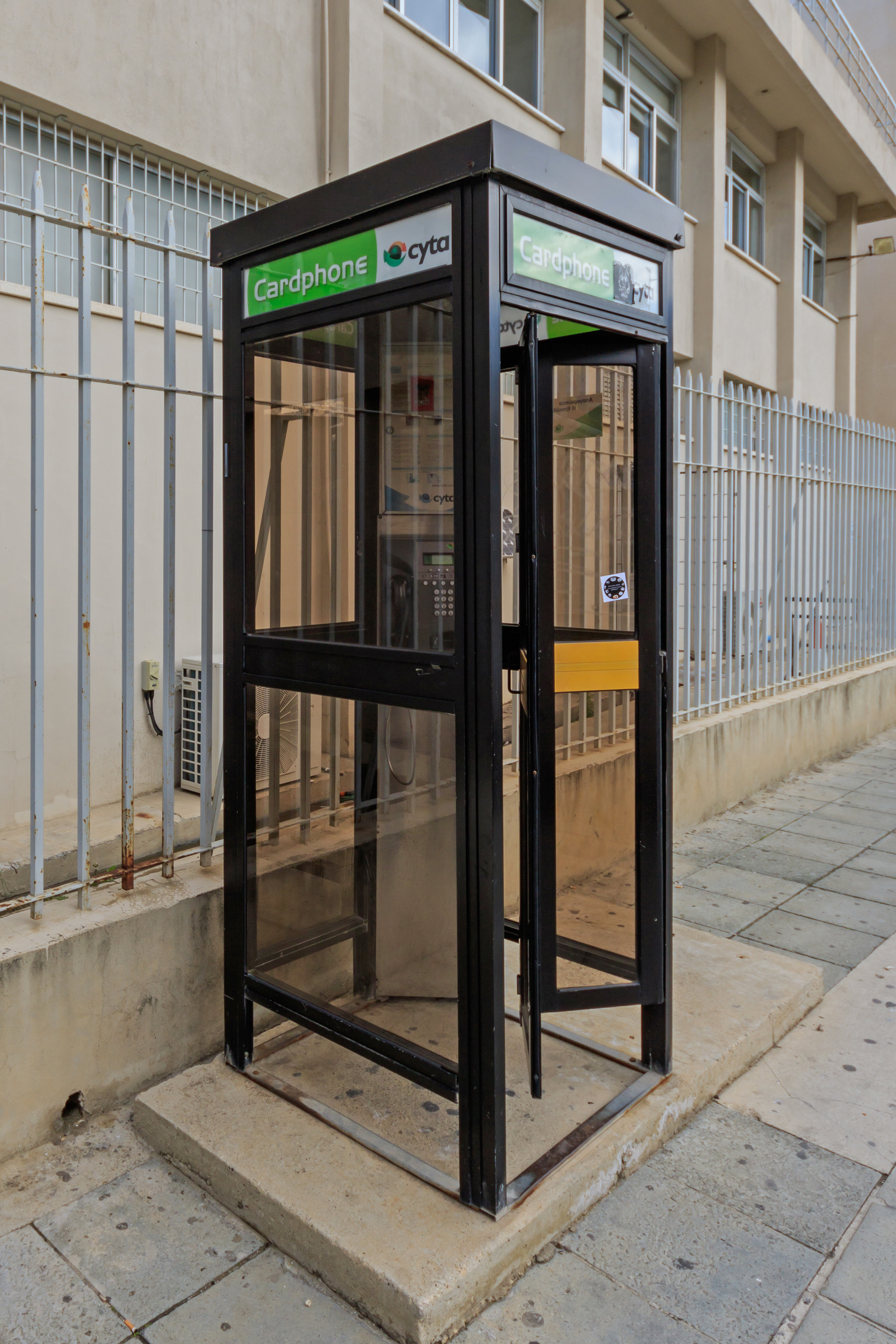 Usual telephone booth in Larnaca, Cyprus